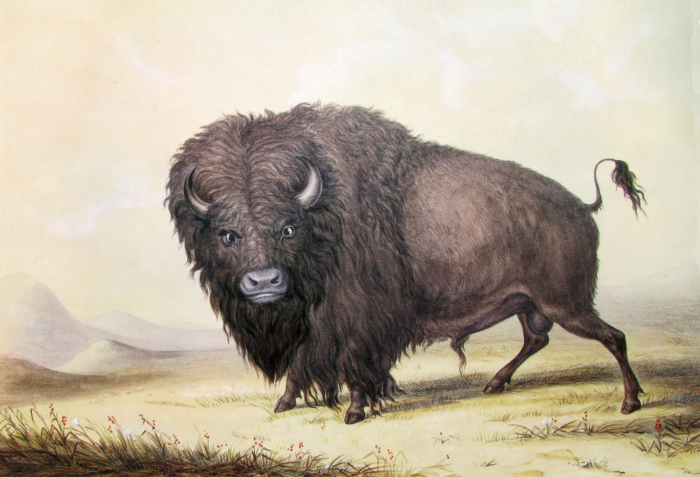 "Bull Buffalo" — lithograph of painting by George Catlin.